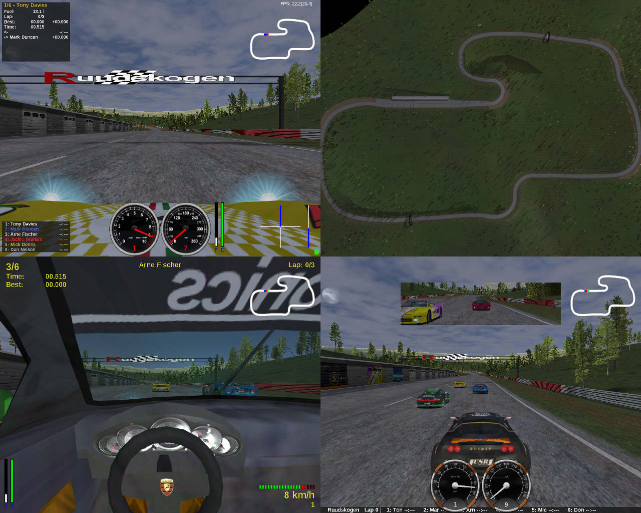 This unedited in-game screenshot of Speed Dreams shows the "split screen" feature: the screen is divided into regions (up to 4); each one can be independently controlled: the four present here show different camera views, widget settings and focused driver. The green square (bottom-right corner of the top-left region) identifies the currently selected region. Copyleft: This work of art is free; you can redistribute it and/or modify it according to terms of the Free Art License. You will find a specimen of this license on the Copyleft Attitude site as well as on other sites.